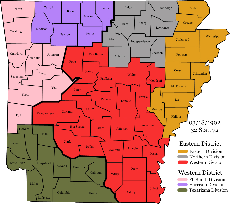 Arkansas districts - 1902